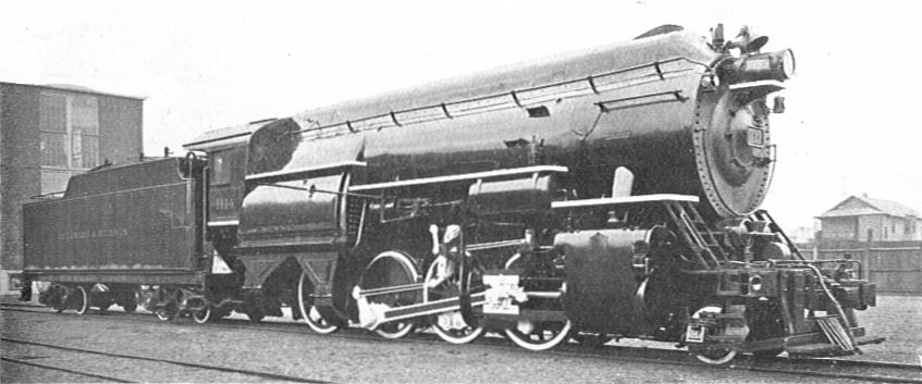 High Pressure Locomotive, "Horatio Allen" Delaware & Hudson Railroad, USA Photo: Delaware & Hudson R.R. The Horatio Allen Nº 1400. Loco Locomotives].